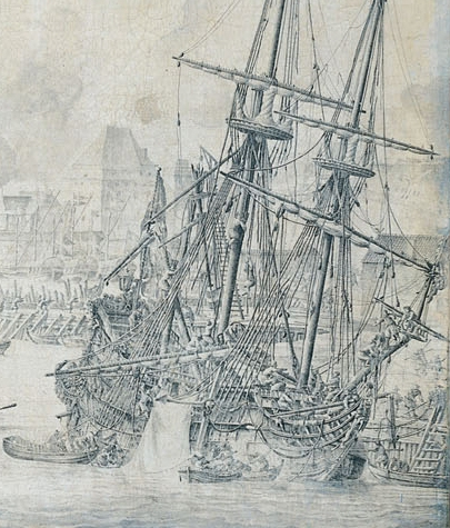 The failed attempt of the English on the Dutch ships returning from Bergen, August 12 1665, Detail: ship on the right side